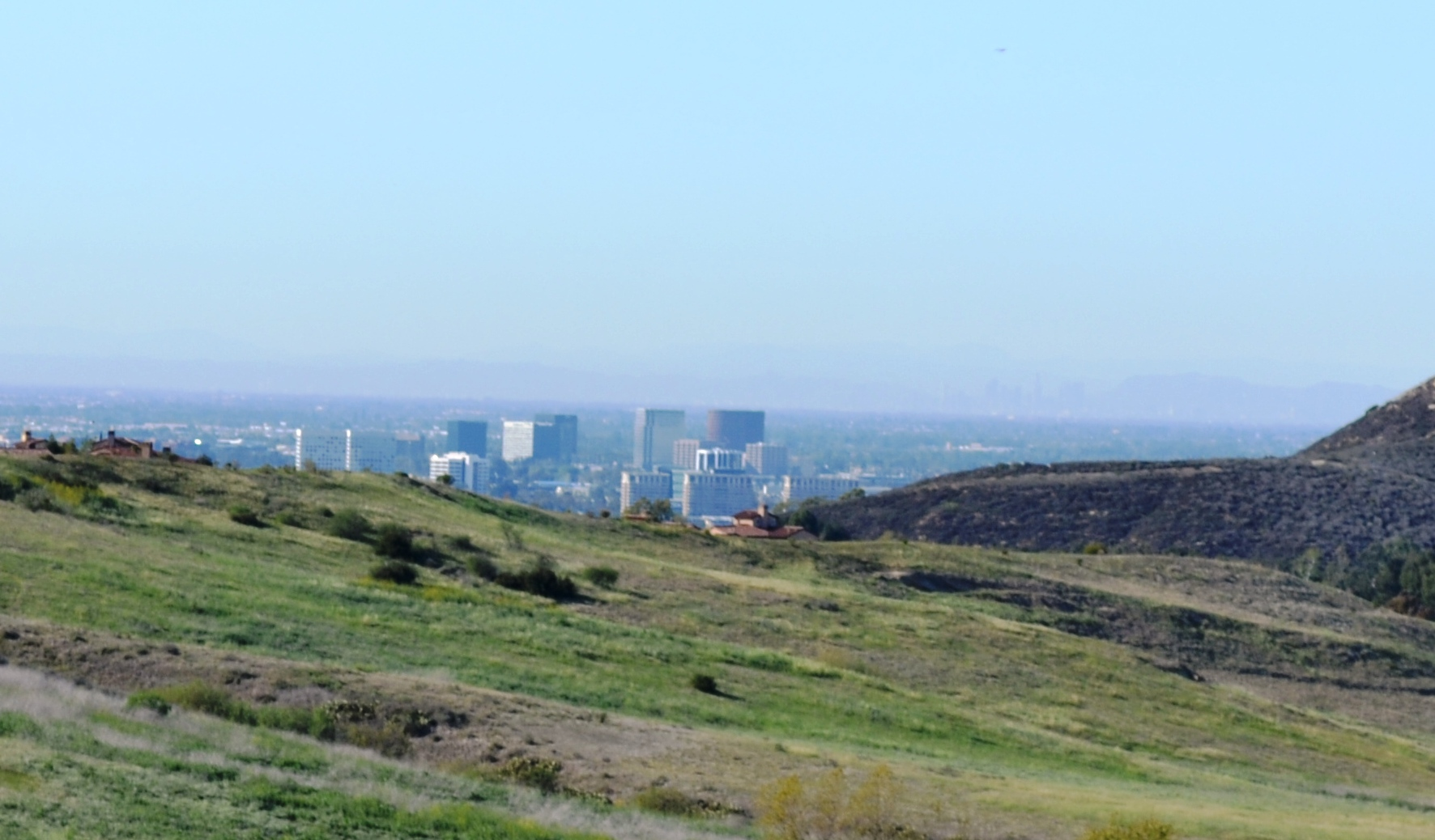 View of Costa Mesa, California and beyond from Bommer Canyon open space preserve in Irvine, California.